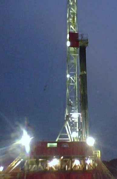 Swanson Drilling rig #1 drilling horizontal oil/gas wells in south Texas